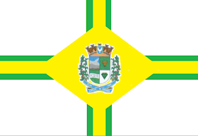 Flags of the city of Catuji, Minas Gerais, Brazil.